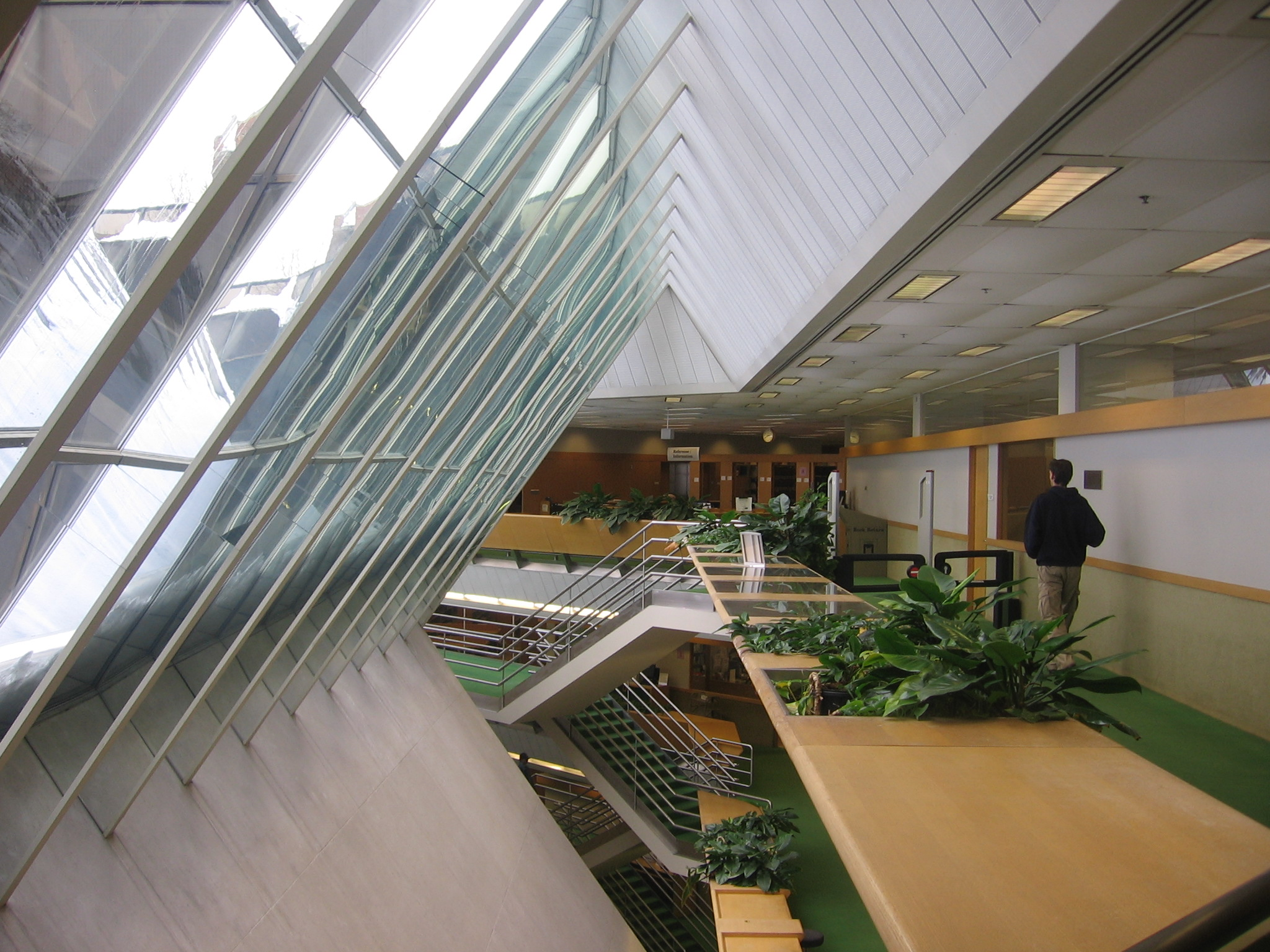 The interior of the University of Michigan Law Library Allen and Alene Smith Addition